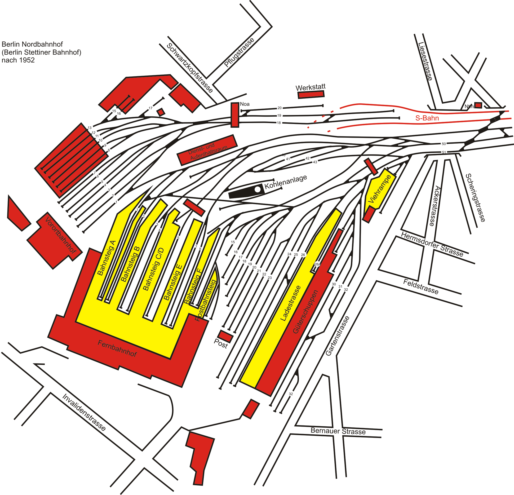 map of the Nordbahnhof in Berlin. Situation after 1952